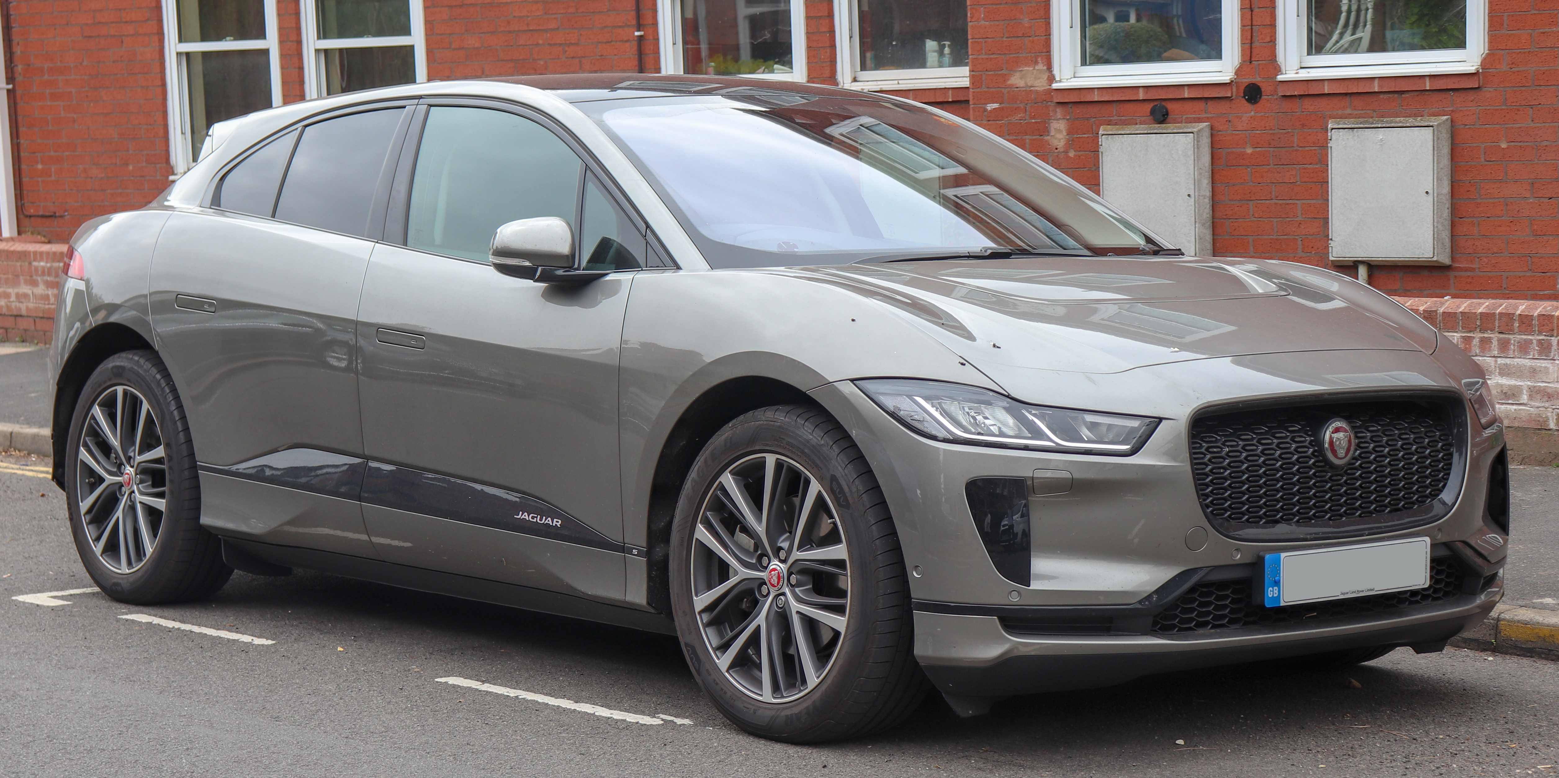 2018 Jaguar I-Pace EV400 S Front Taken in Leamington Spa